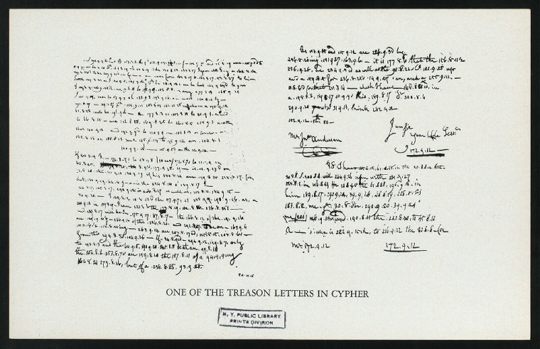 This is a reproduction of one of Benedict Arnold's coded communications with the British while he was negotiating what eventually became a failed attempt to surrender the fort at West Point in 1780. Lines of text written by his wife, Peggy Shippen Arnold, are interspersed with coded text (originally written in invisible ink) written by Arnold.